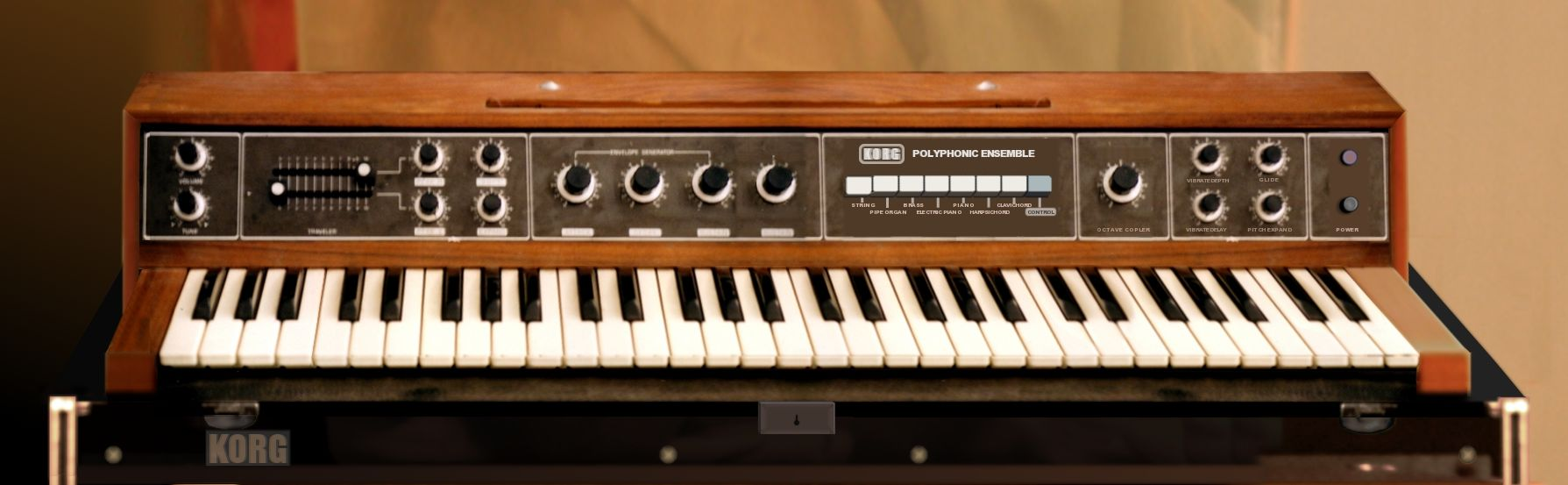 KORG PE-1000 Polyphonic Ensemble UNIVOX K4 It's a Univox. Aaron offered to trade me for a pretty awesome Korg with a vocoder. I still have it.